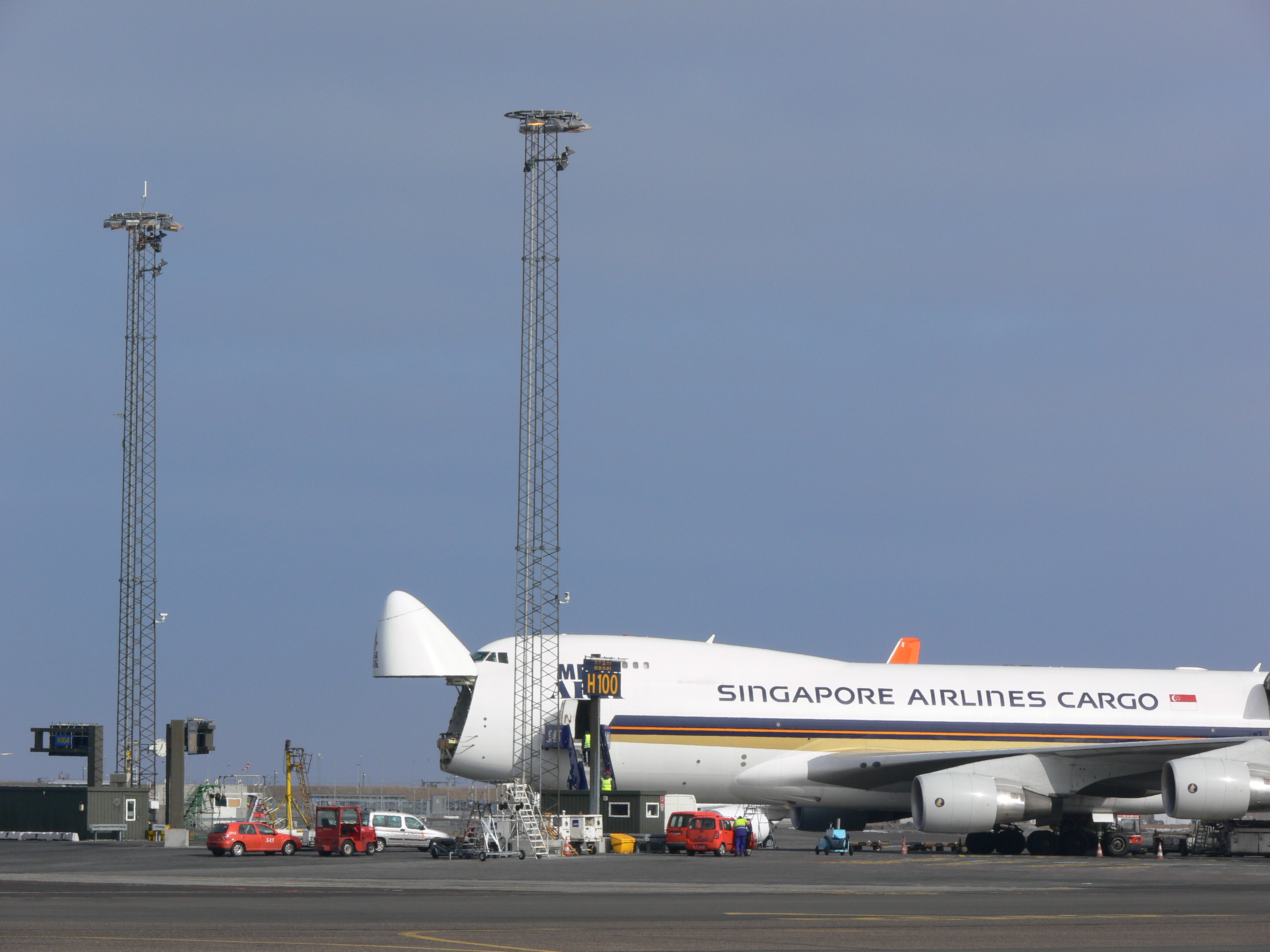 A Singapore Airlines Cargo Boeing 747 loading at Copenhagen Airport (Kastrup)